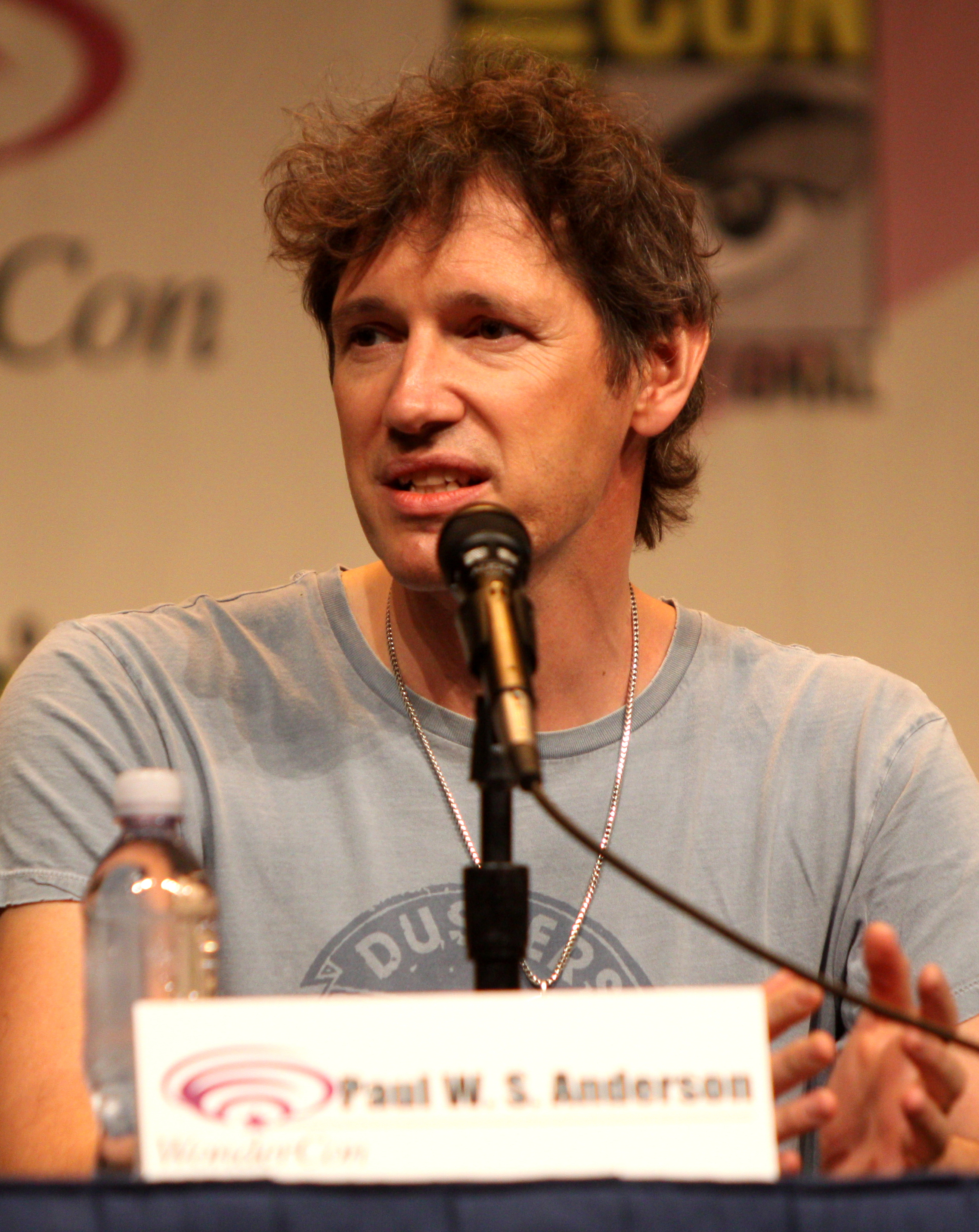 Paul W. S. Anderson speaking at Wondercon 2012 in Anaheim, California on March 17, 2012.